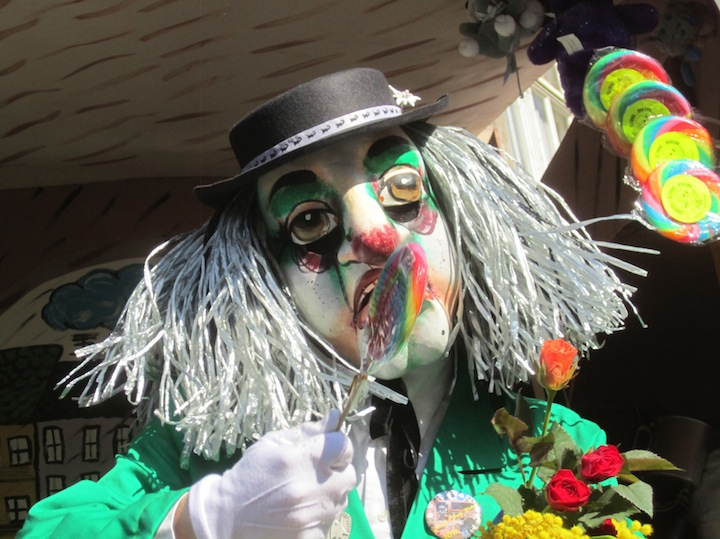 Basel Fasnacht participant 2012